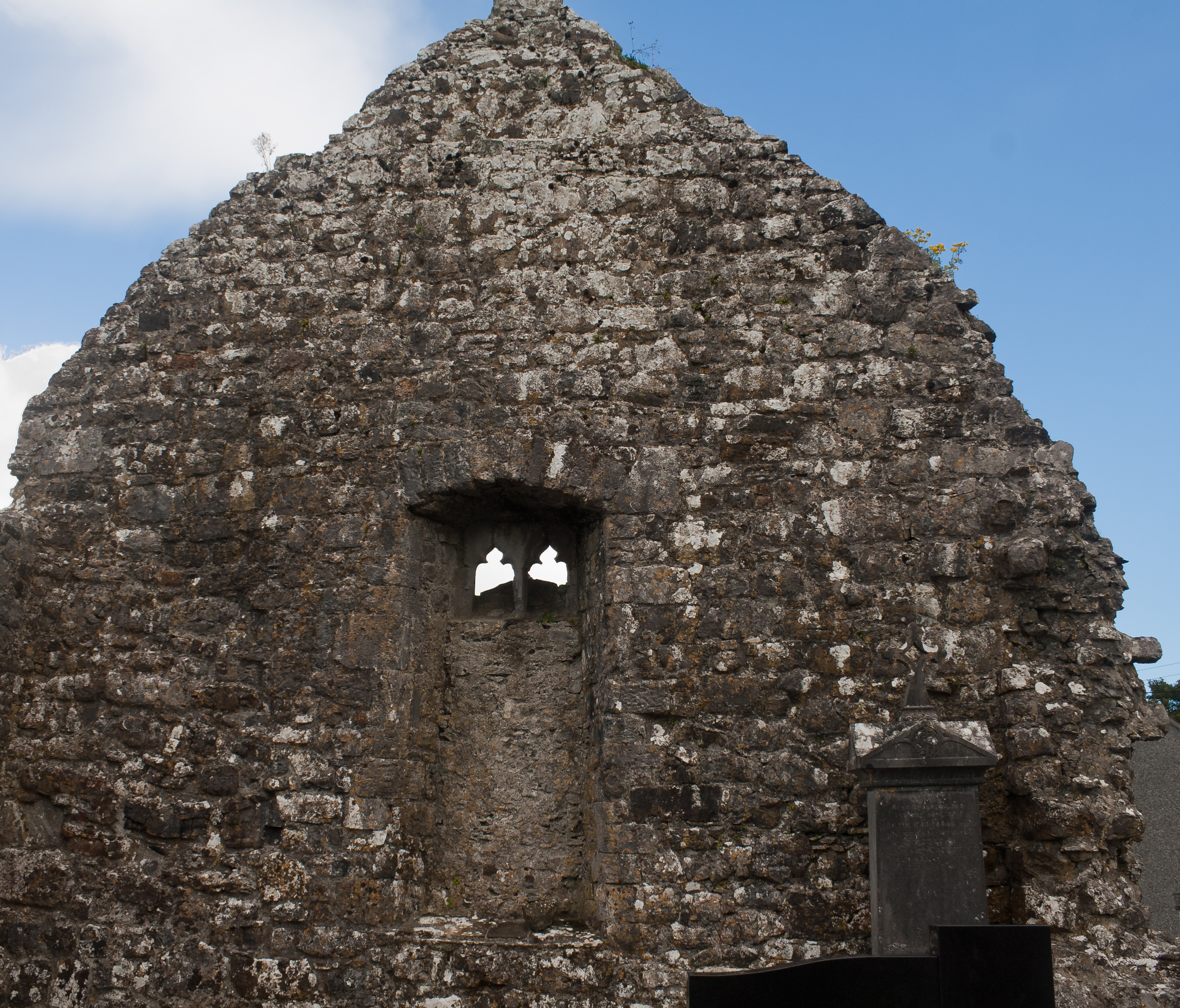 Interior side of the east gable with a partially blocked two-ligh ogee-headed window.